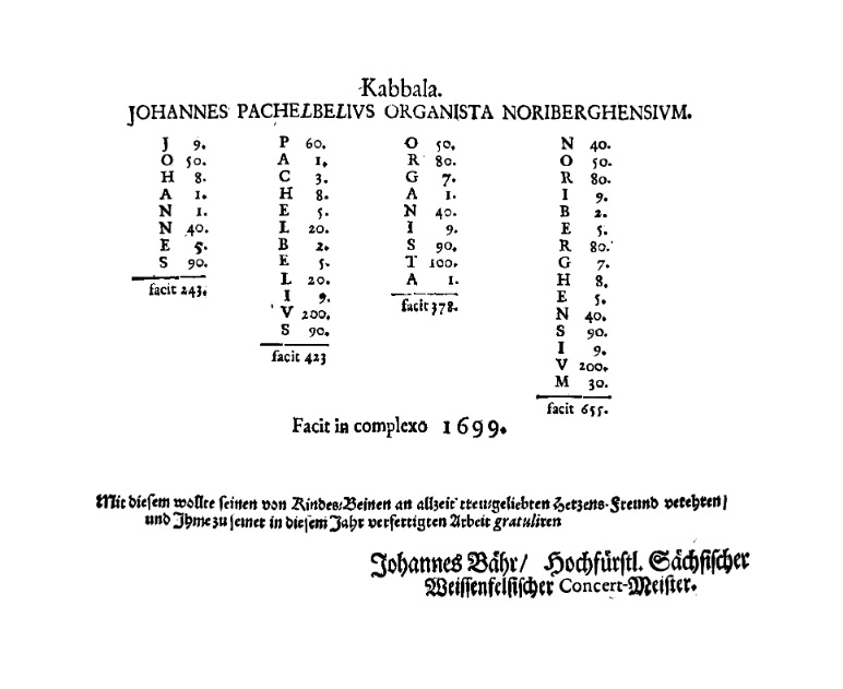 Kabbala in Pachelbel's preface to Hexachordum Apollinis